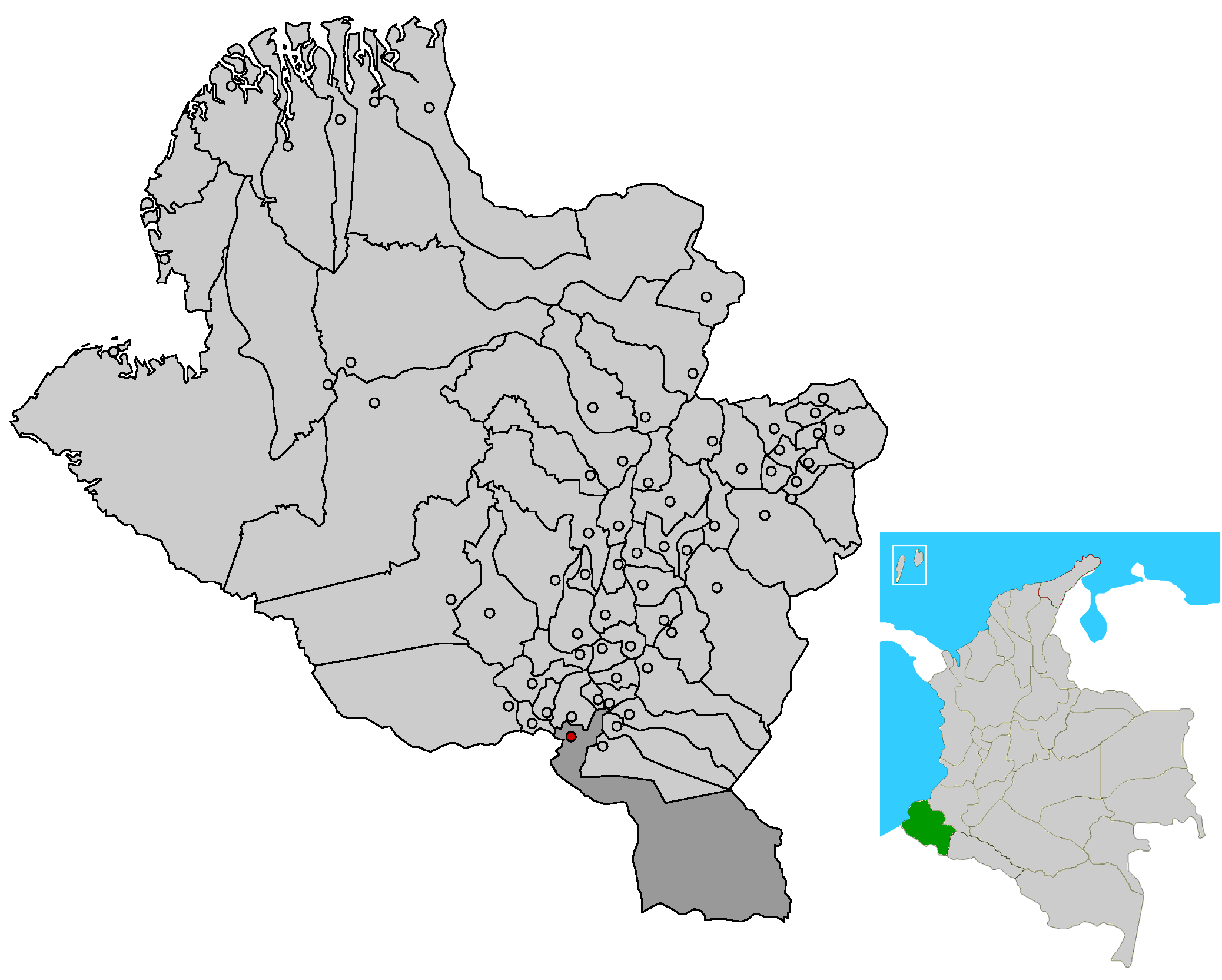 Image depicting map location of the town and municipality of Ipiales in the Nariño Department, Colombia